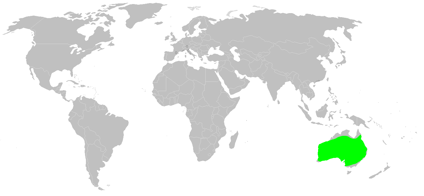 World Distribution of Missulena occatoria (Actinopodidae), after data from Mike Gray.